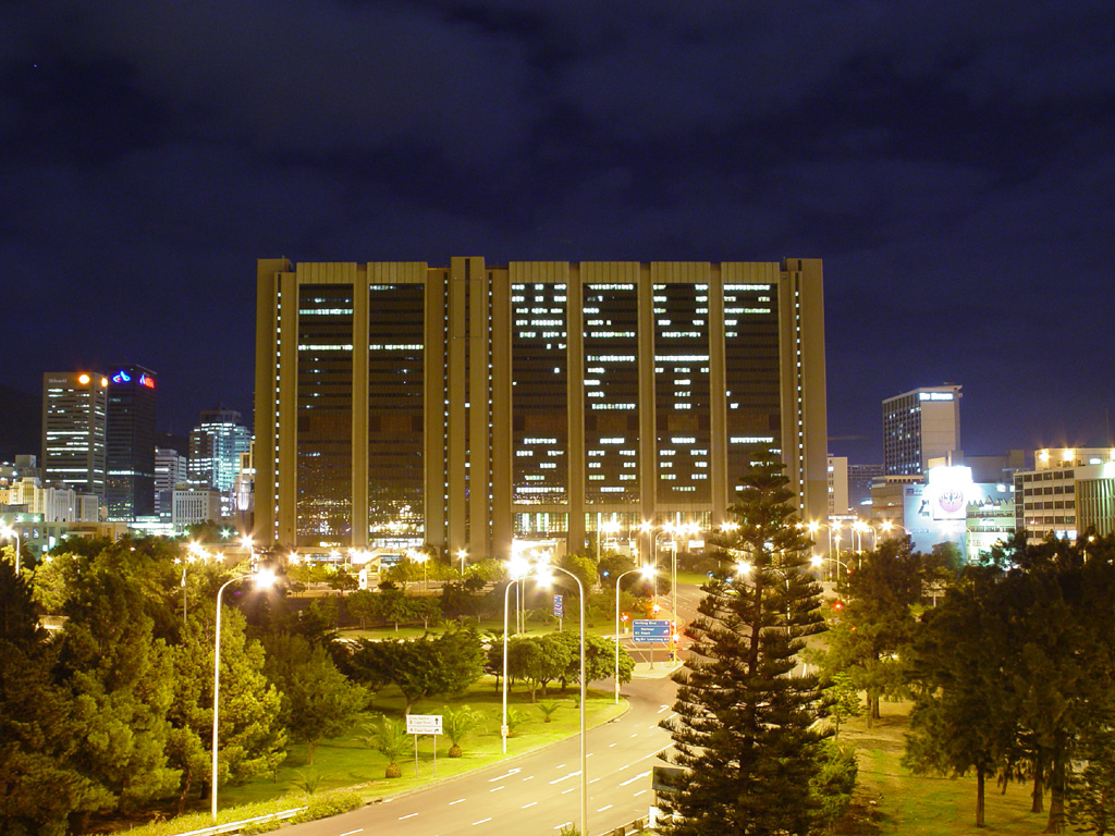 Civic Centre, South Africa honors 2003 World Cup. South Africa was host to the Cricket World Cup in 2003.